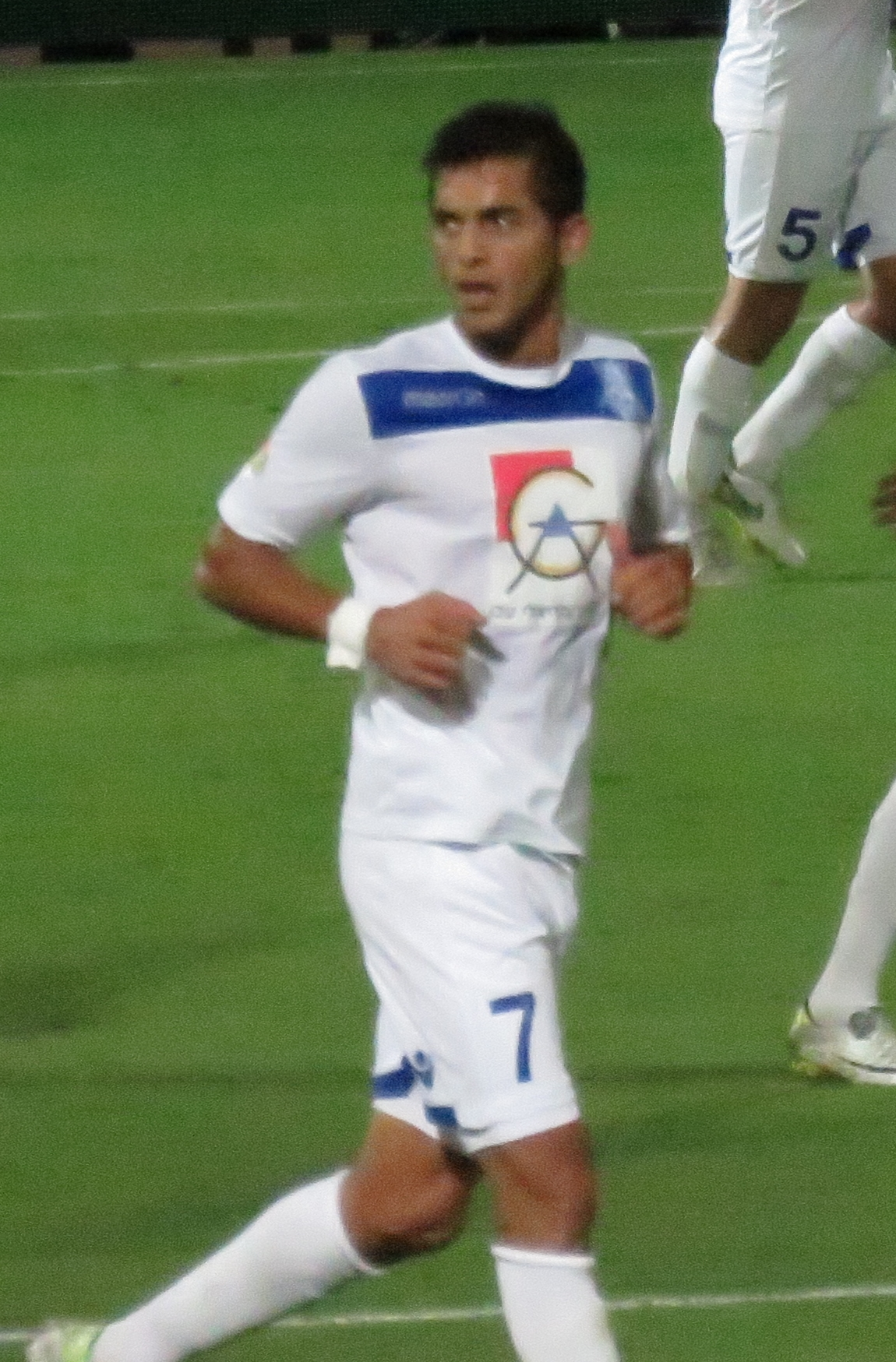 Bnei Yehuda Tel Aviv vs. Hapoel Acre - August 31, 2015